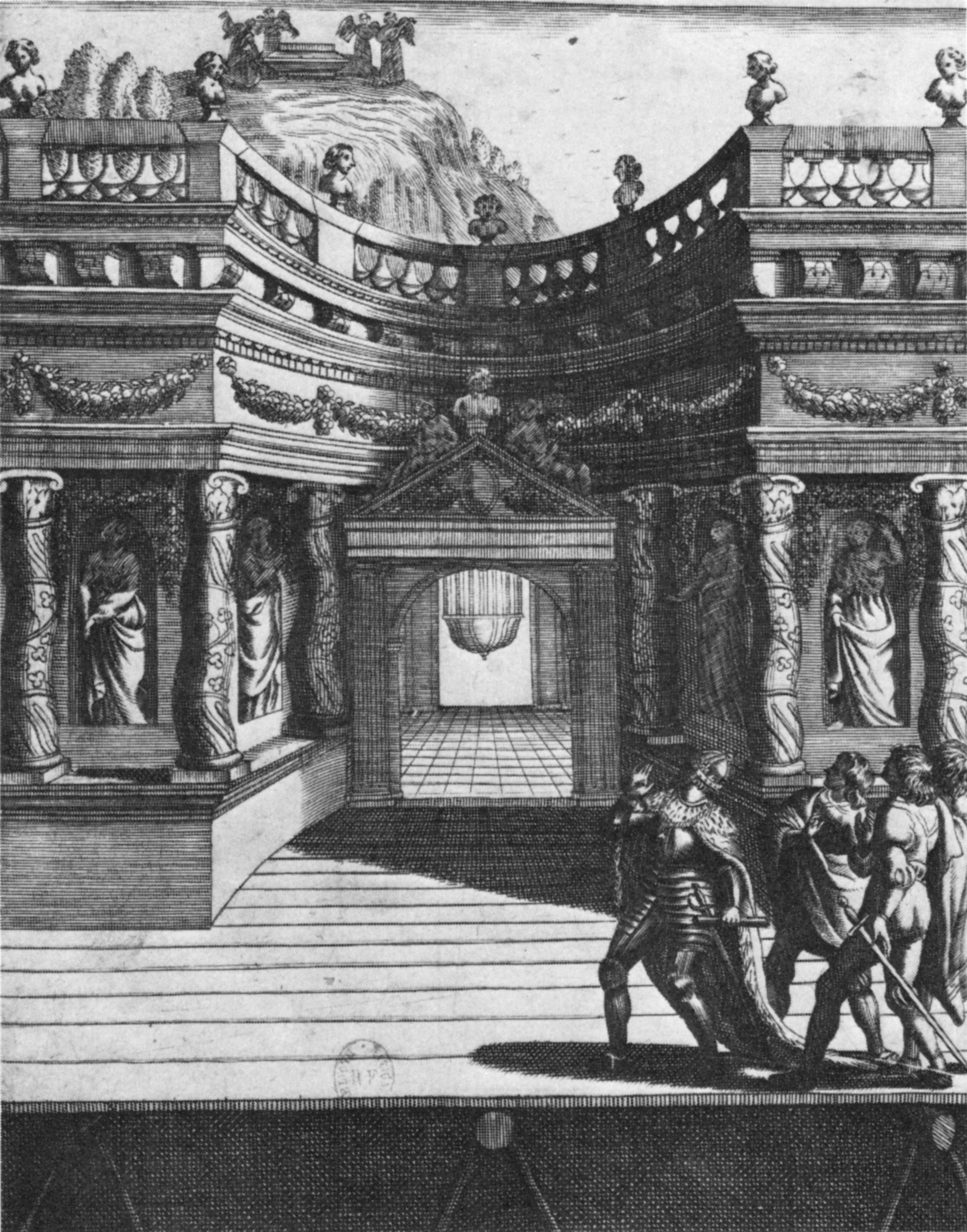 Setting for Act 5 of Le Martyre de Sainte Catherine, a French play by Jean Puget de la Serre (1600-1665), first produced in 1643 at the Hôtel de Bourgogne